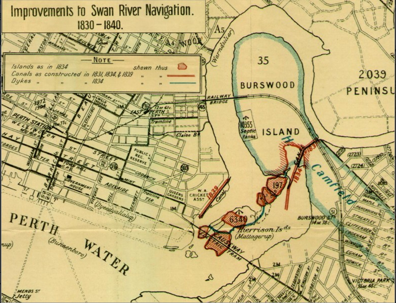 Sketch of Burswood Estate and the Peninsula, belonging to H Camfield Esq, Swan River, Western Australia. Battye Library [Map 2/5/19]